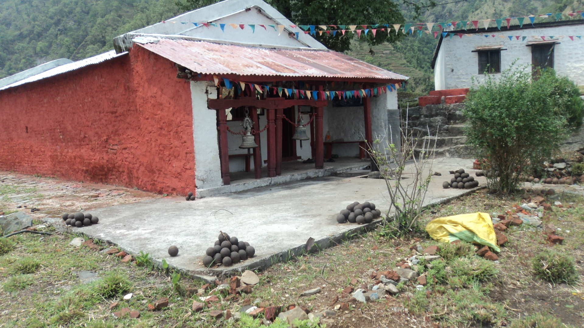 A historic fort of Nepal.